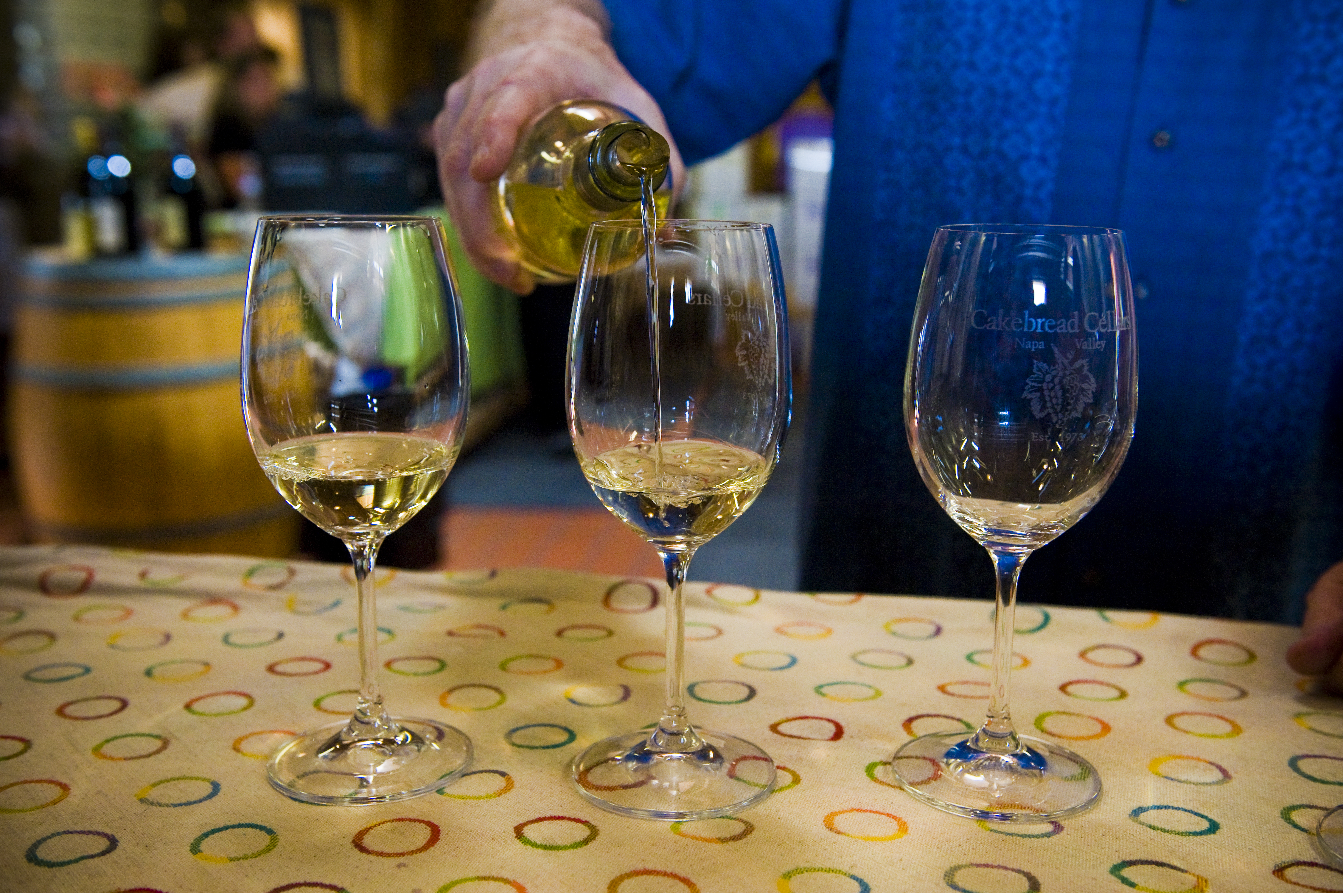 Cakebread Cellars in Rutherford in Napa Valley, California